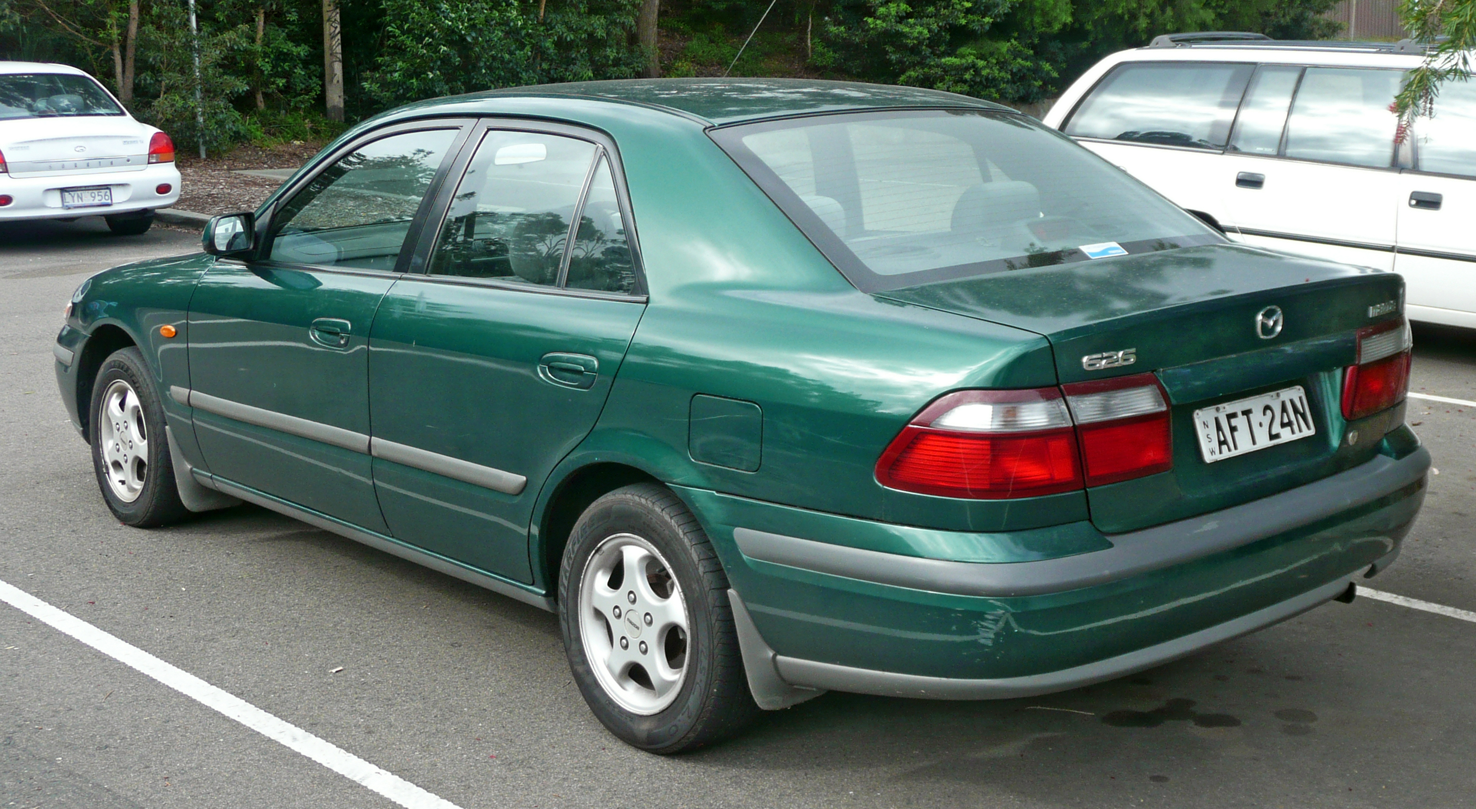 1998 Mazda 626 (GF) Classic sedan. Photographed in Kirrawee, New South Wales, Australia.